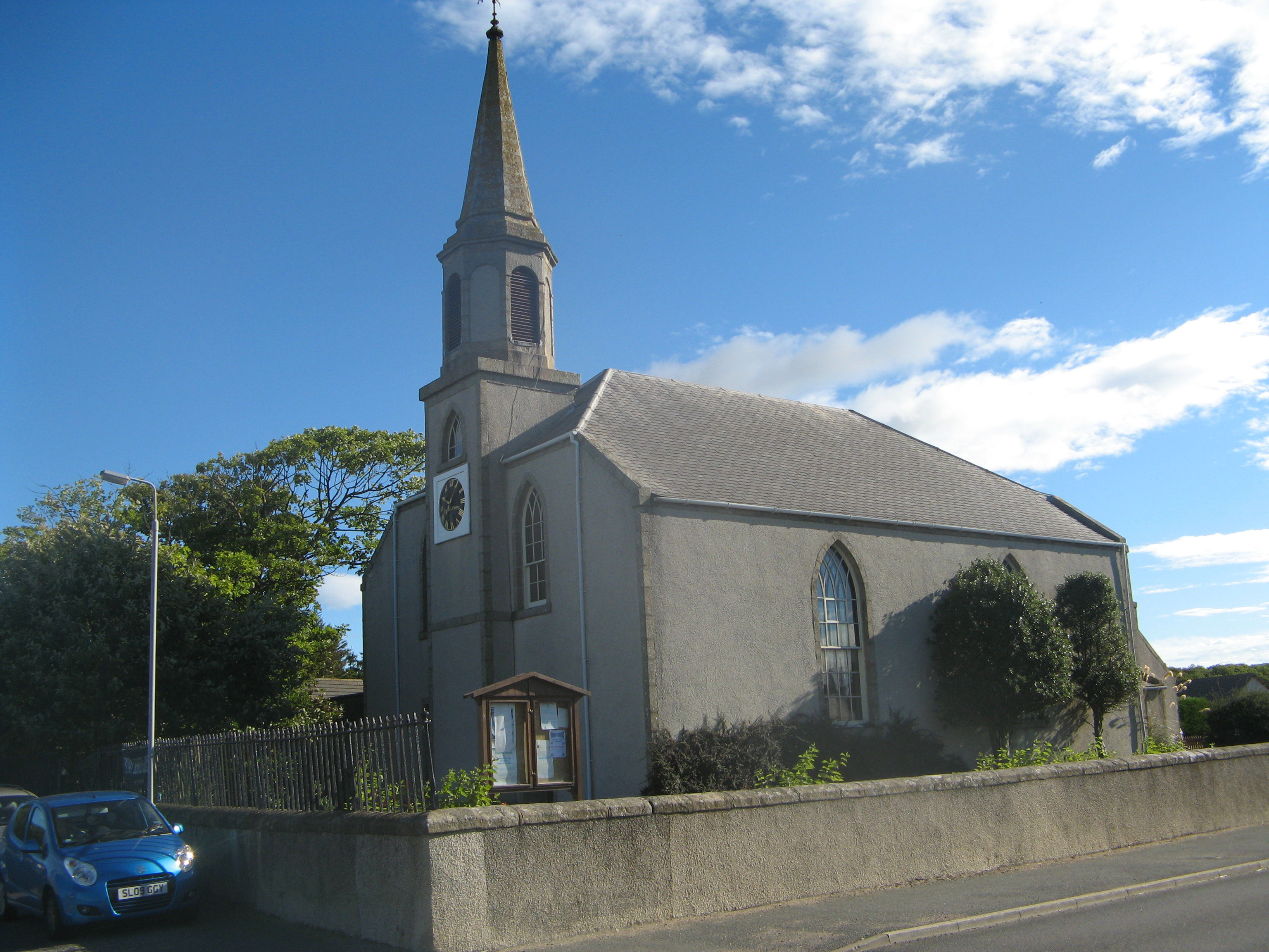 Parish Church of Crimond, category A listed building, side view